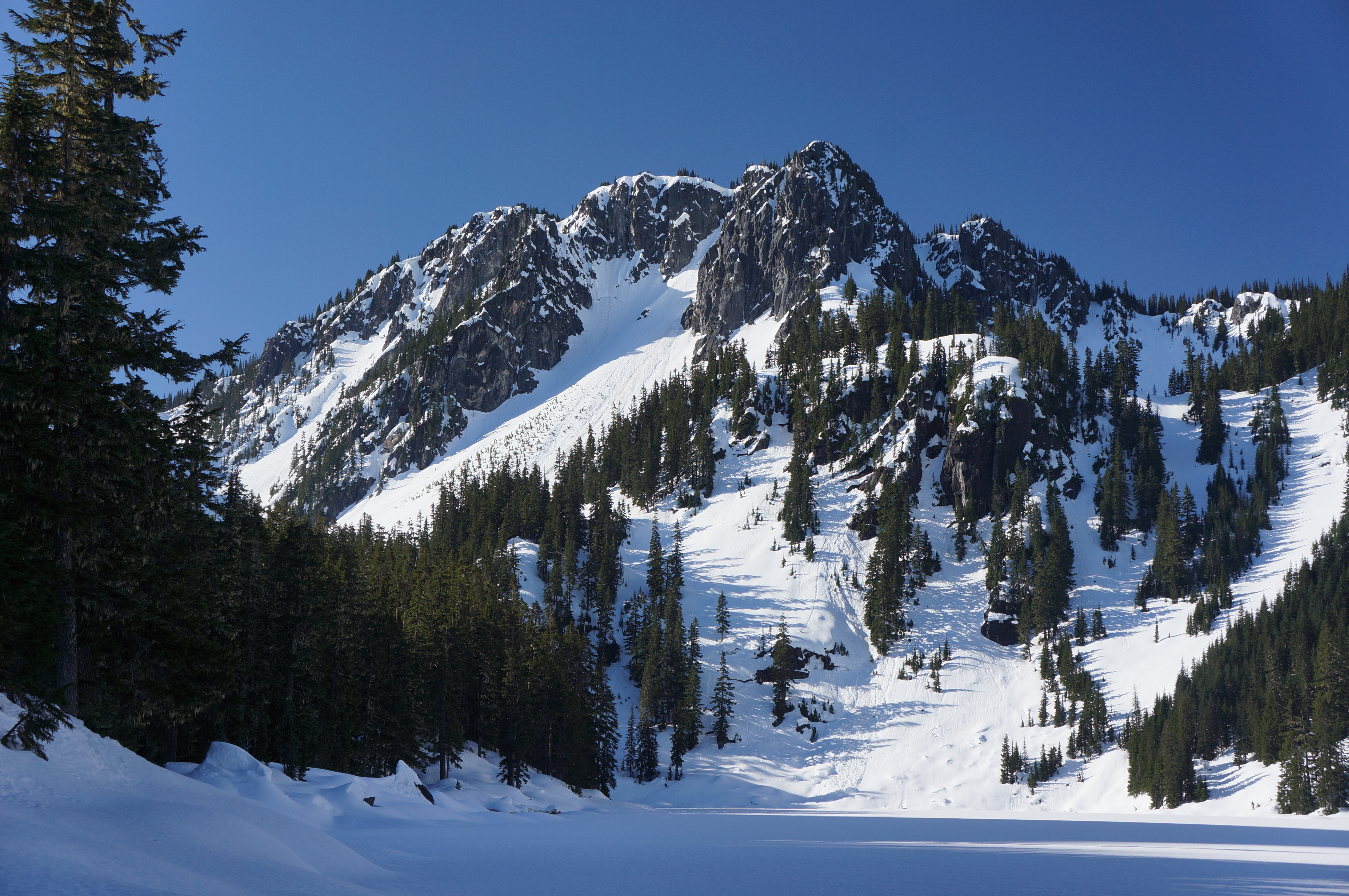 Surprise Mountain, Washington. Elevation 6,330 feet, (1,929 meters)